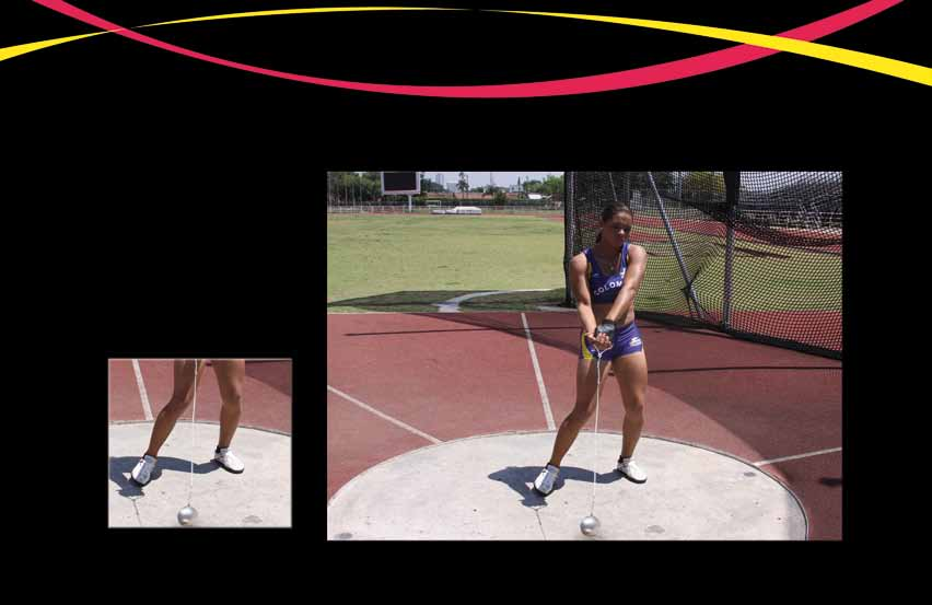 hammer trow